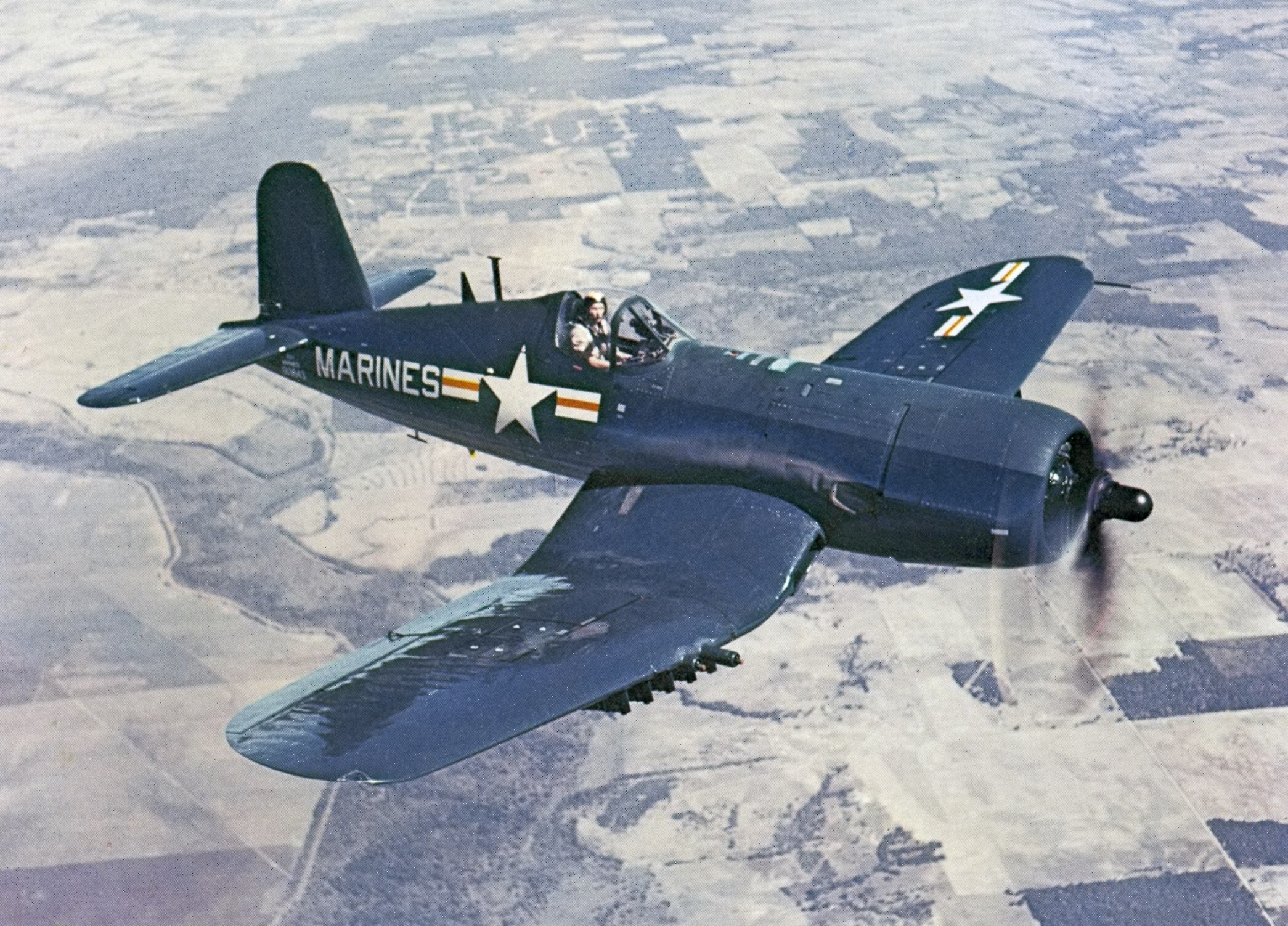 A U.S. Marine Corps Vought AU-1 Corsair in flight in 1952.